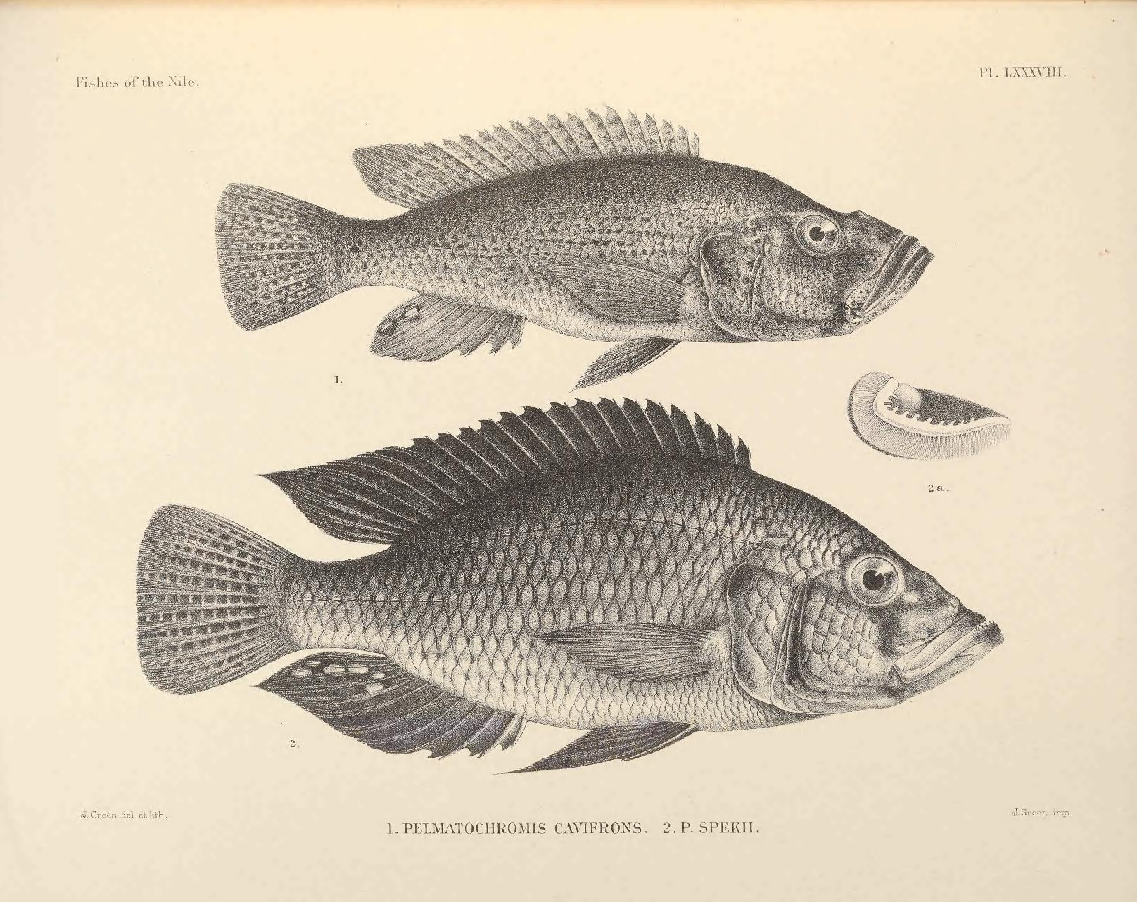 1. Haplochromis cavifrons, 2. Haplochromis spekii